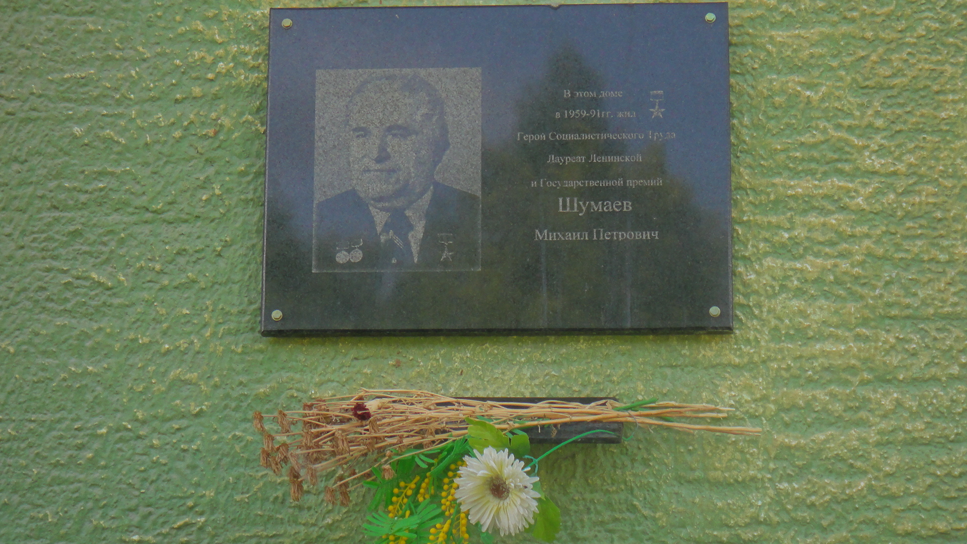 Мемориальная доска Шумаеву